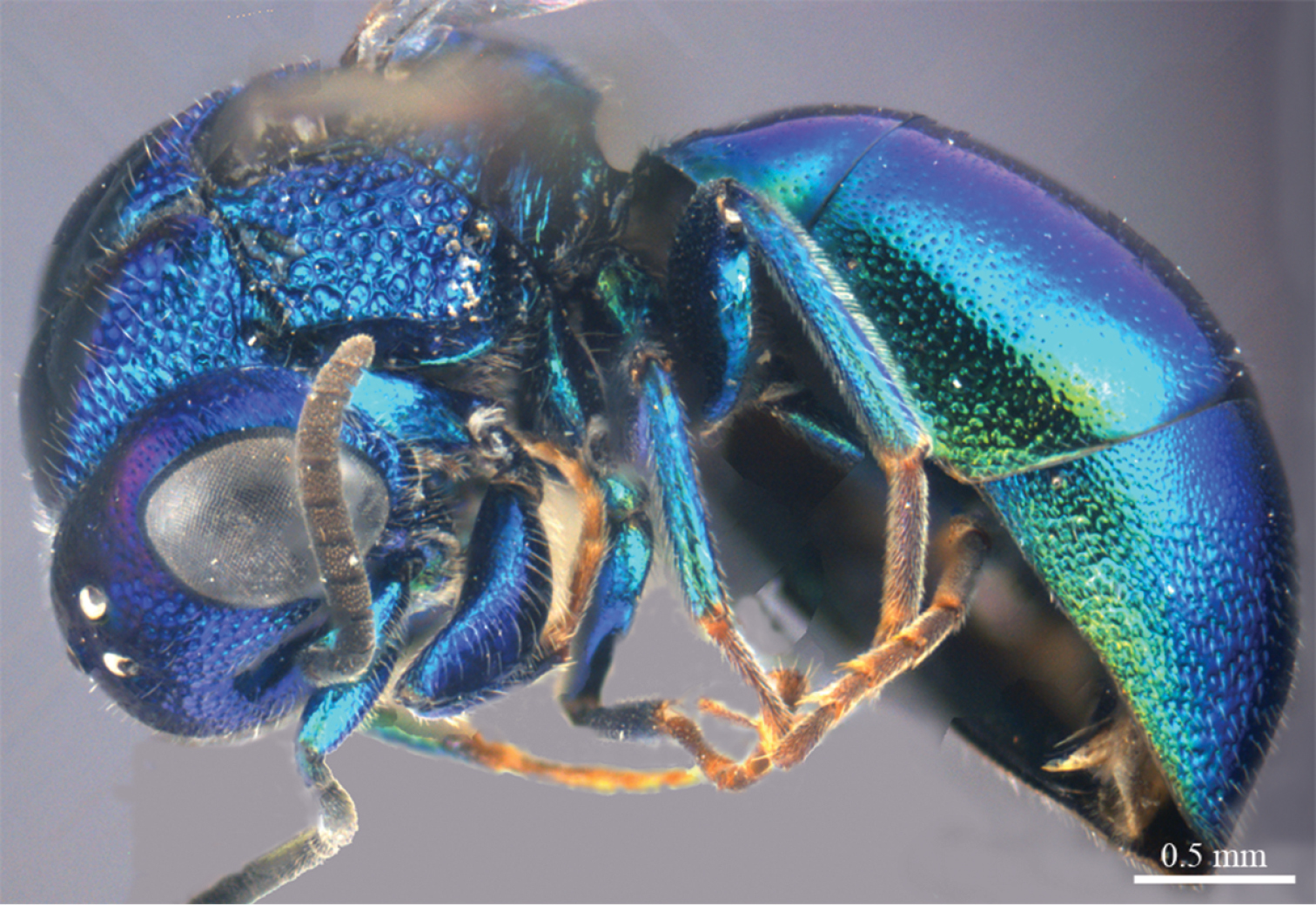 Omalus aeneus (Fabricius, 1787), female from Inner Mongolia. Habitus lateral.